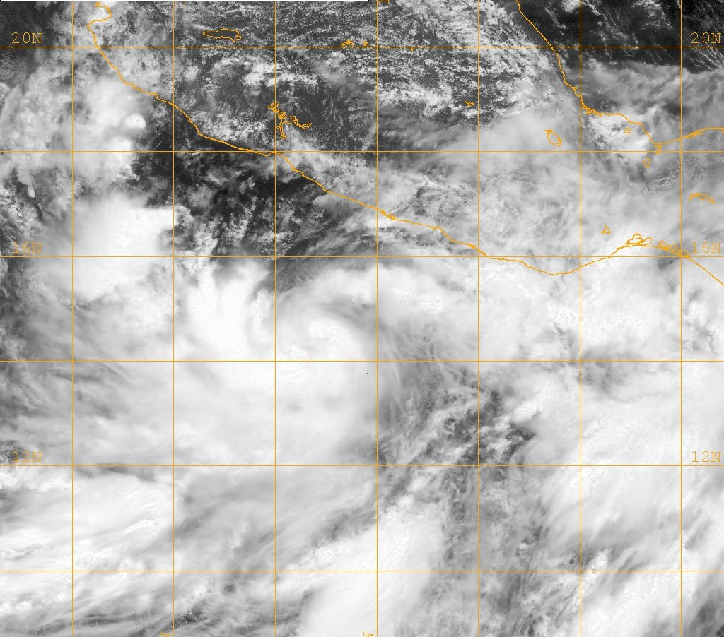 Tropical Storm Andres (2009) when it was a tropical depression.